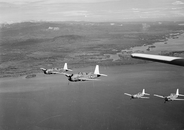 NEAR ALEXISHAFEN, NEW GUINEA. 1944-02-27. IN FLIGHT, VULTEE VENGEANCE DIVE BOMBER AIRCRAFT OF NO. 24 SQUADRON RAAF RETURNING FROM AN AIR RAID ON THE JAPANESE-HELD AIRSTRIP ON THE NORTH COAST OF NEW GUINEA.